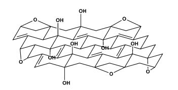 Ruess formula